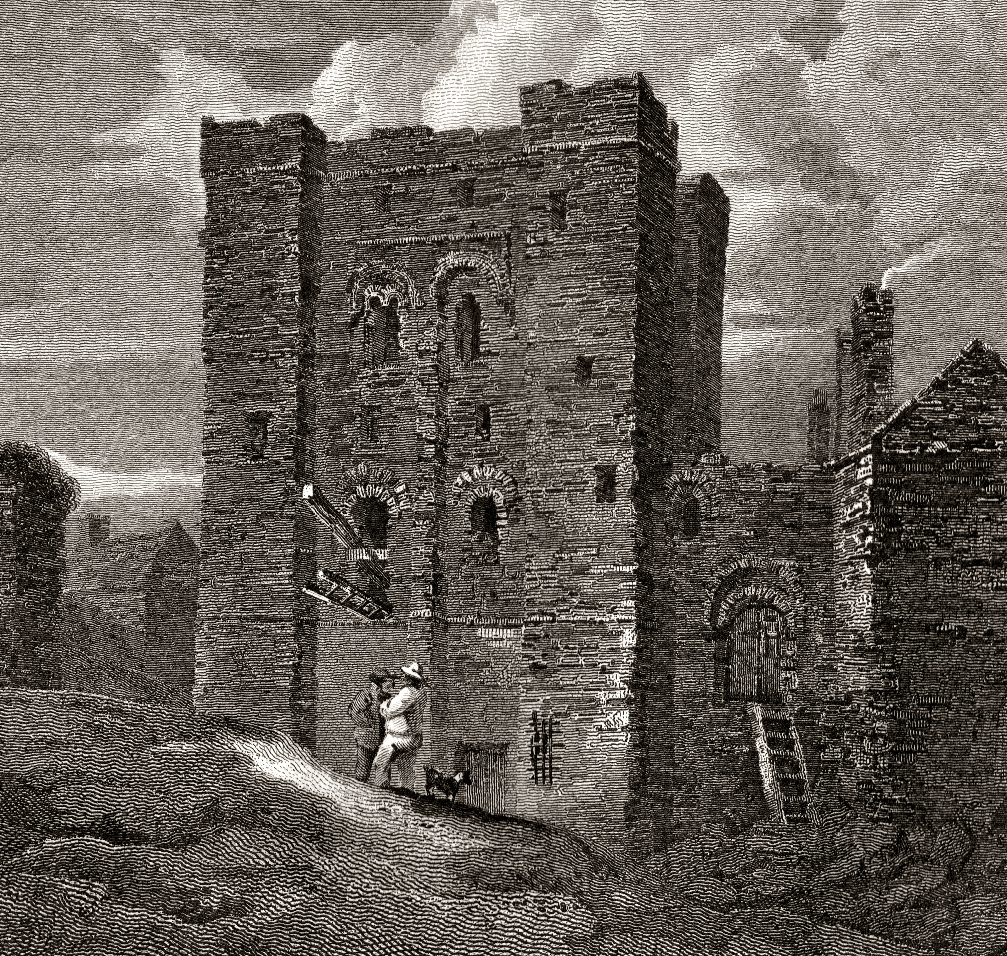 Newcastle Castle, Newcastle, as in 1814. England